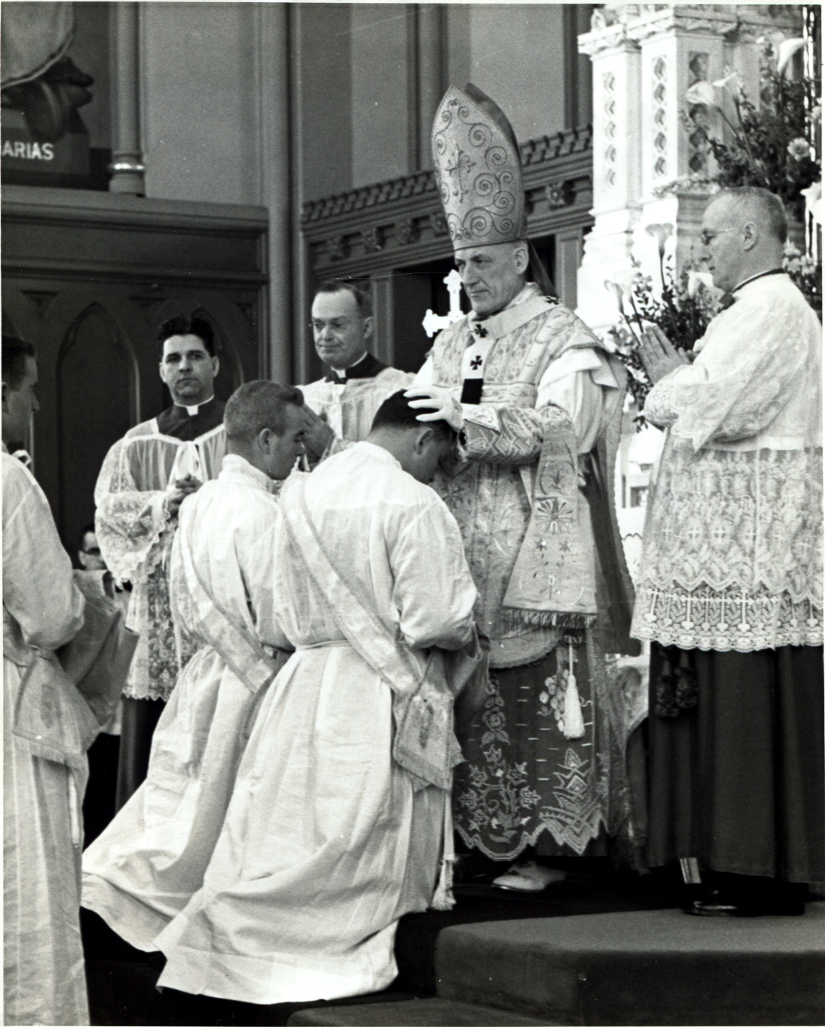 Richard Cardinal Cushing, Archbishop of Boston, performs ordinations at Catholic of the Holy Cross and other churches in the archdiocese in February, 1958. (Archives of the Archdiocese of Boston)